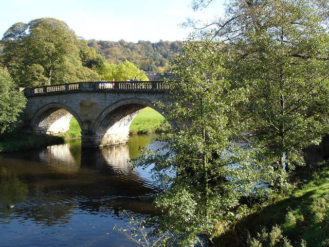 Bridge over the Derwent The bridge in Chatsworth park.